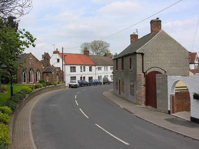 Main Street, Airmyn in the East Riding of Yorkshire, England.A view of the main street where it curves away from the banks of the River Aire towards the north end of the village.